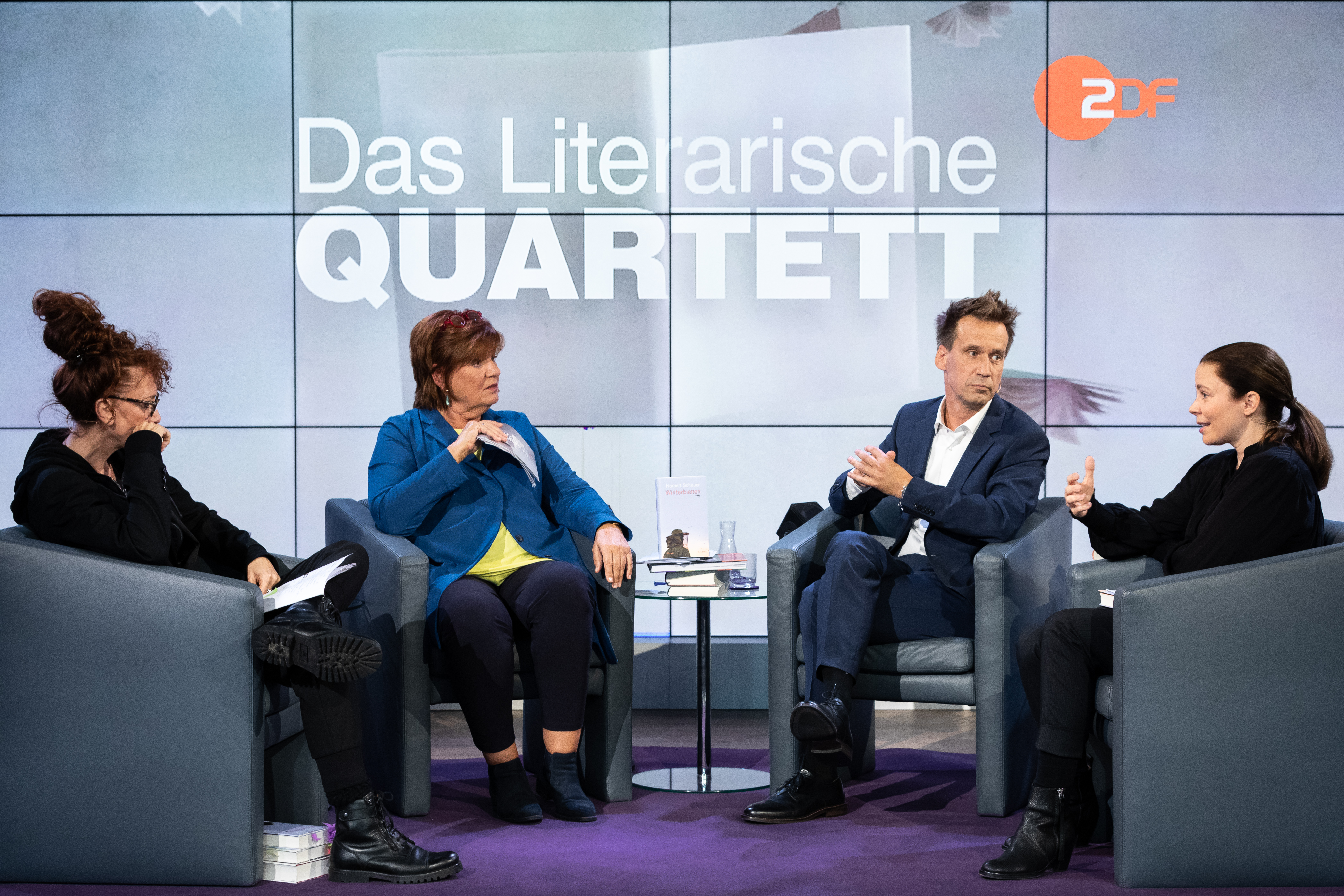 Sibylle Berg, Christine Westermann, Volker Weidermann und Thea Dorn; Das Literarische Quartett at the Frankfurt Book Fair 2019